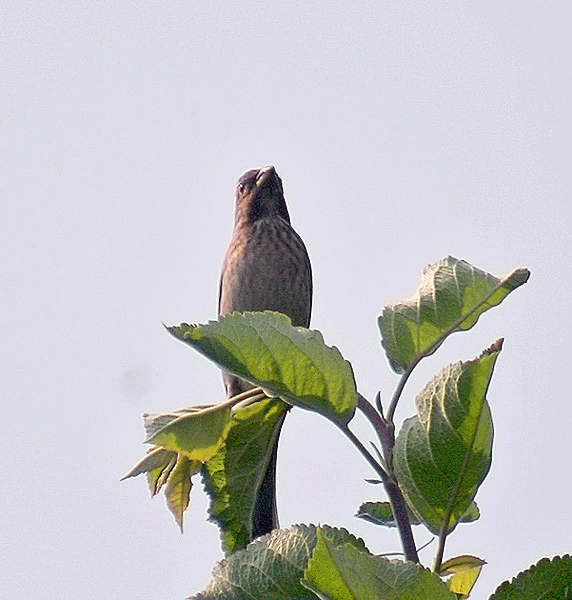 Common Rosefinch (Carpodacus erythrinus) in Kullu District of Himachal Pradesh, India.